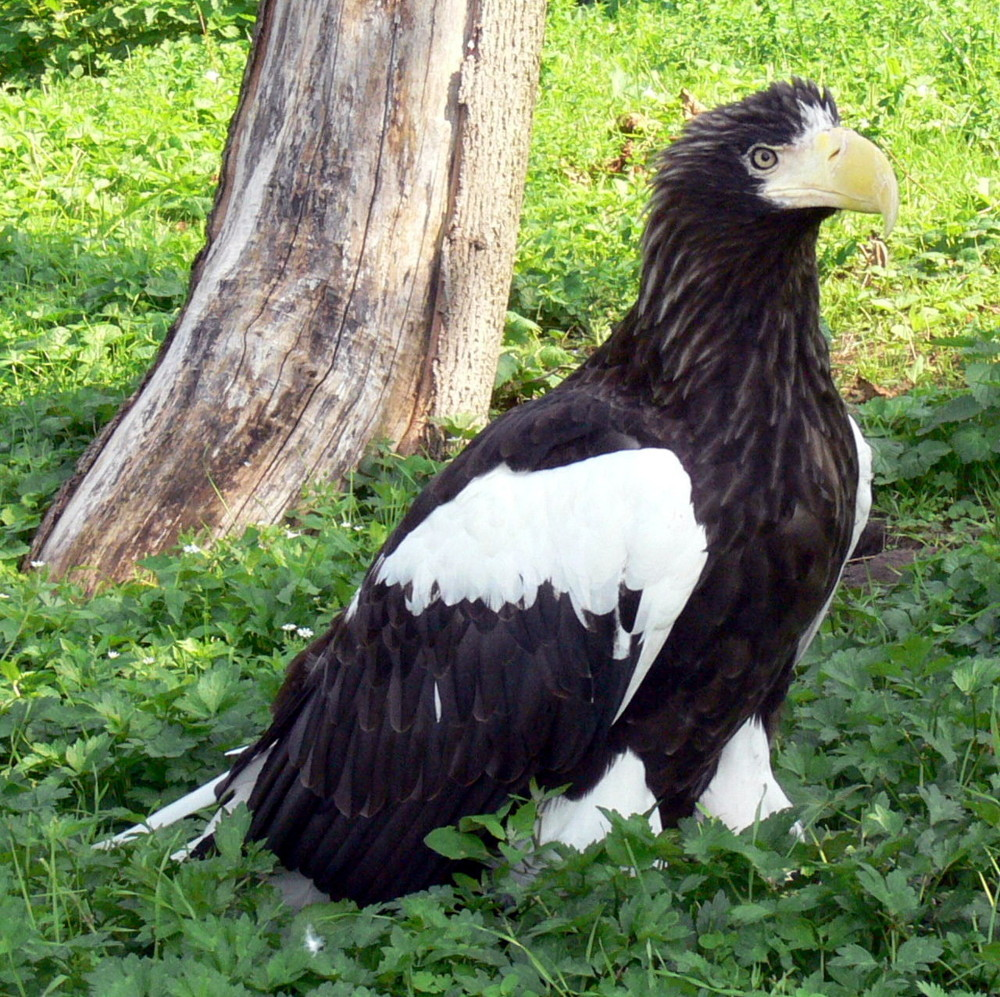 Haliaeetus pelagicus taken at the Tierpark Berlin, Germany